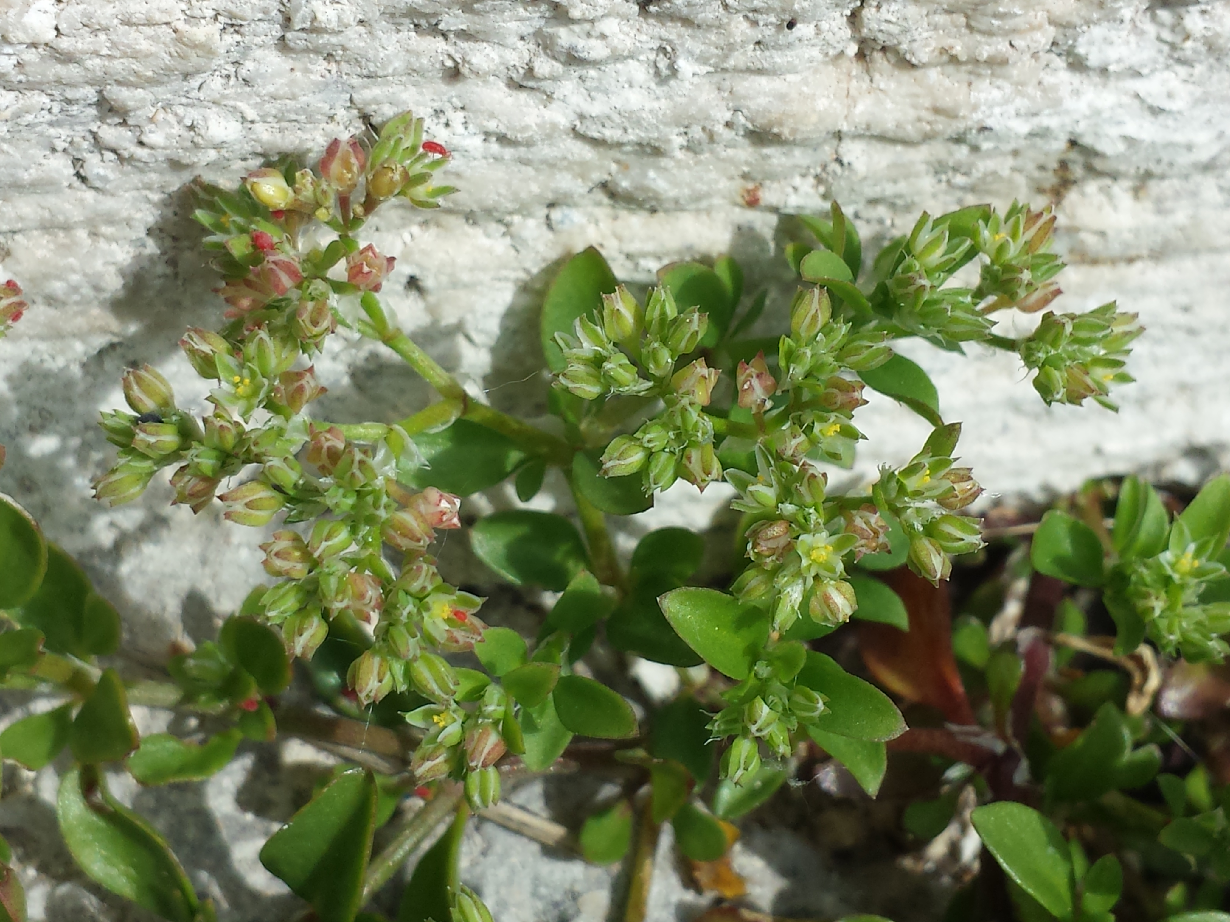 Inflorescence Taxonym: Polycarpon tetraphyllum ss Fischer et al. EfÖLS 2008 ISBN 978-3-85474-187-9 Location: city of Krk, community Krk, Krk, County Primorje-Gorski kotar, Croatia Habitat: ruderal area